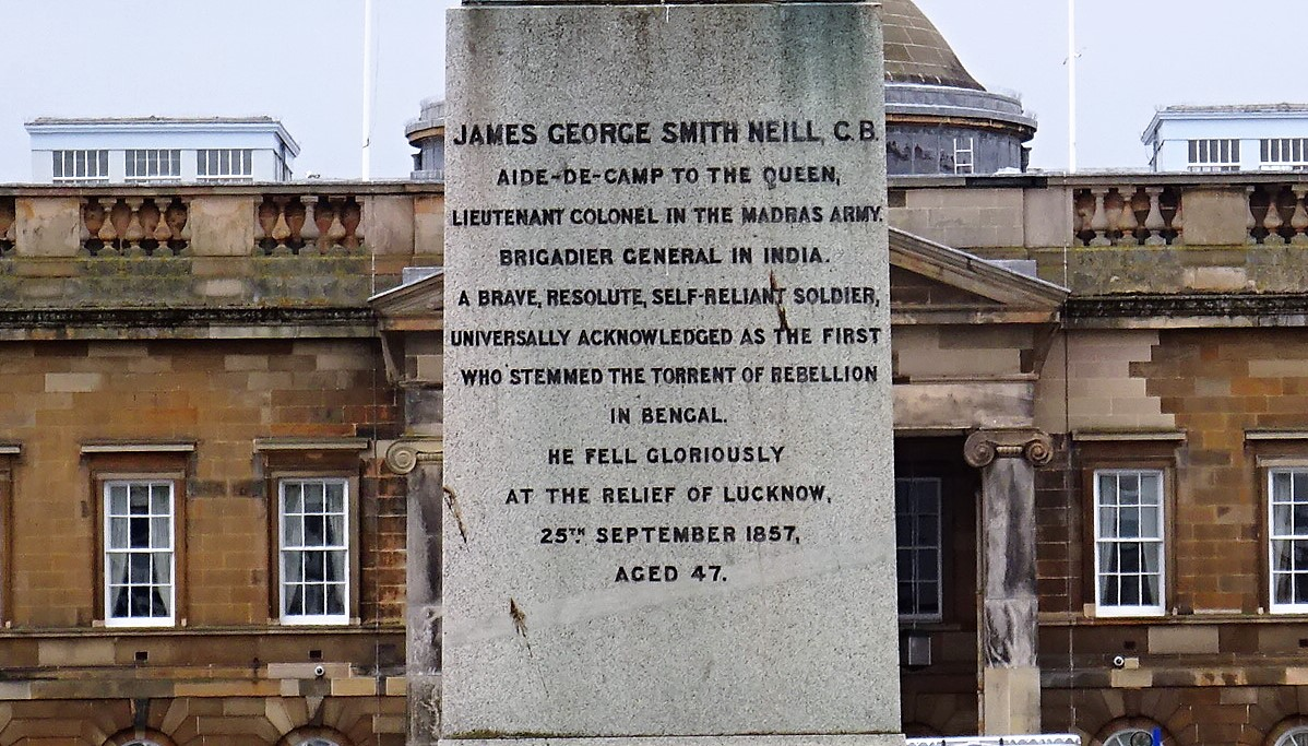 James George Smith Neill statue, Wellington Square, Ayr - inscription.